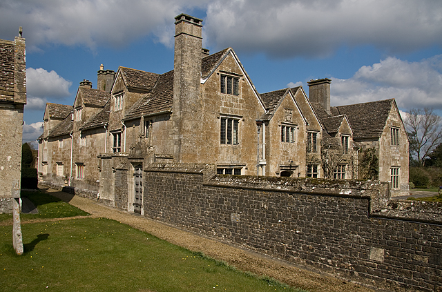 The Manor House - Hinton St Mary With additions dating from 1694 and throughout the C18, C19, and C20, there is little remaining on the outside to proclaim the building's medieval origins (possibly C13). However, the quality of this house is such that it is placed at the very top of its Grade II* Listing.